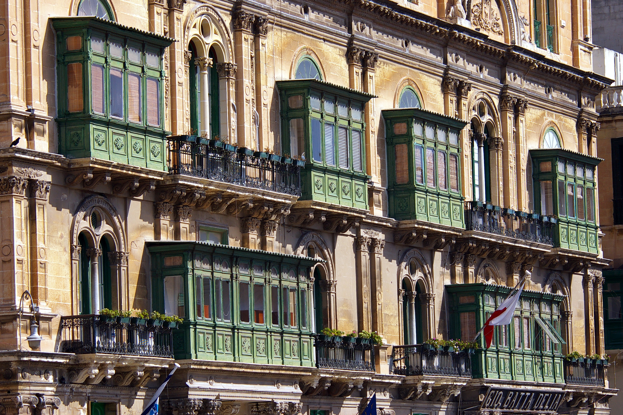 Balconies in Valletta